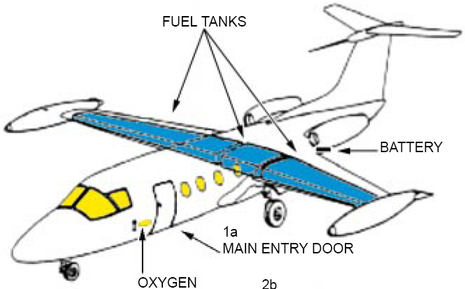 HFB 320